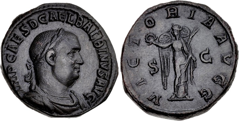 Balbinus. AD 238. Æ Sestertius (30mm, 22.56 g, 1h). Rome mint. 1st emission. IMP CAES D CAEL BALBINUS AUG, Laureate, draped, and cuirassed bust right VICTORIA AUGG, Victory standing left, holding wreath and palm frond. RIC IV 25; BMCRE 40-1; Banti 9.